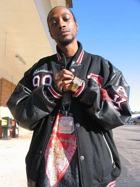 T-Rock